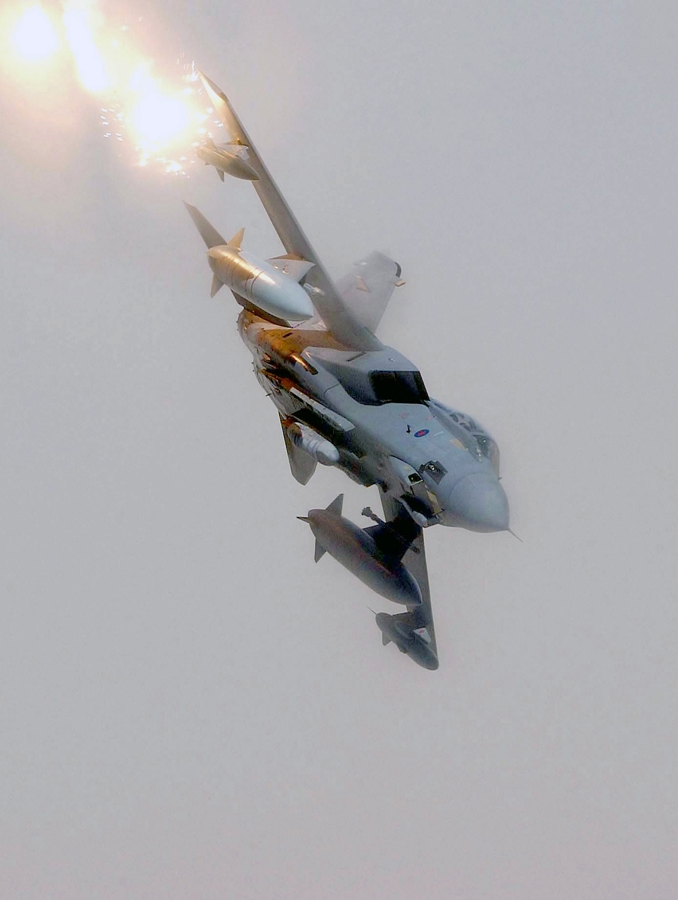 A Royal Air Force Panavia Tornado GR.4 releases flares during a combat mission over Iraq on 22 April 2004.